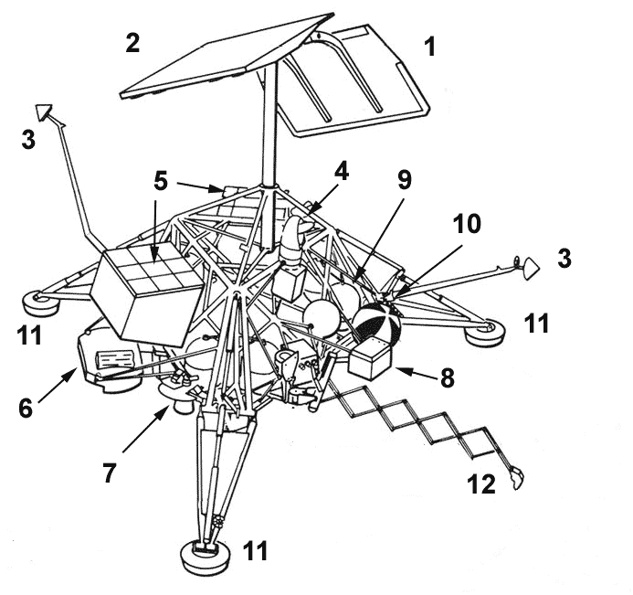 Surveyor spacecraft drawing